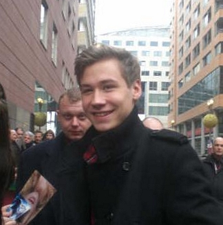 David Kross in Berlin